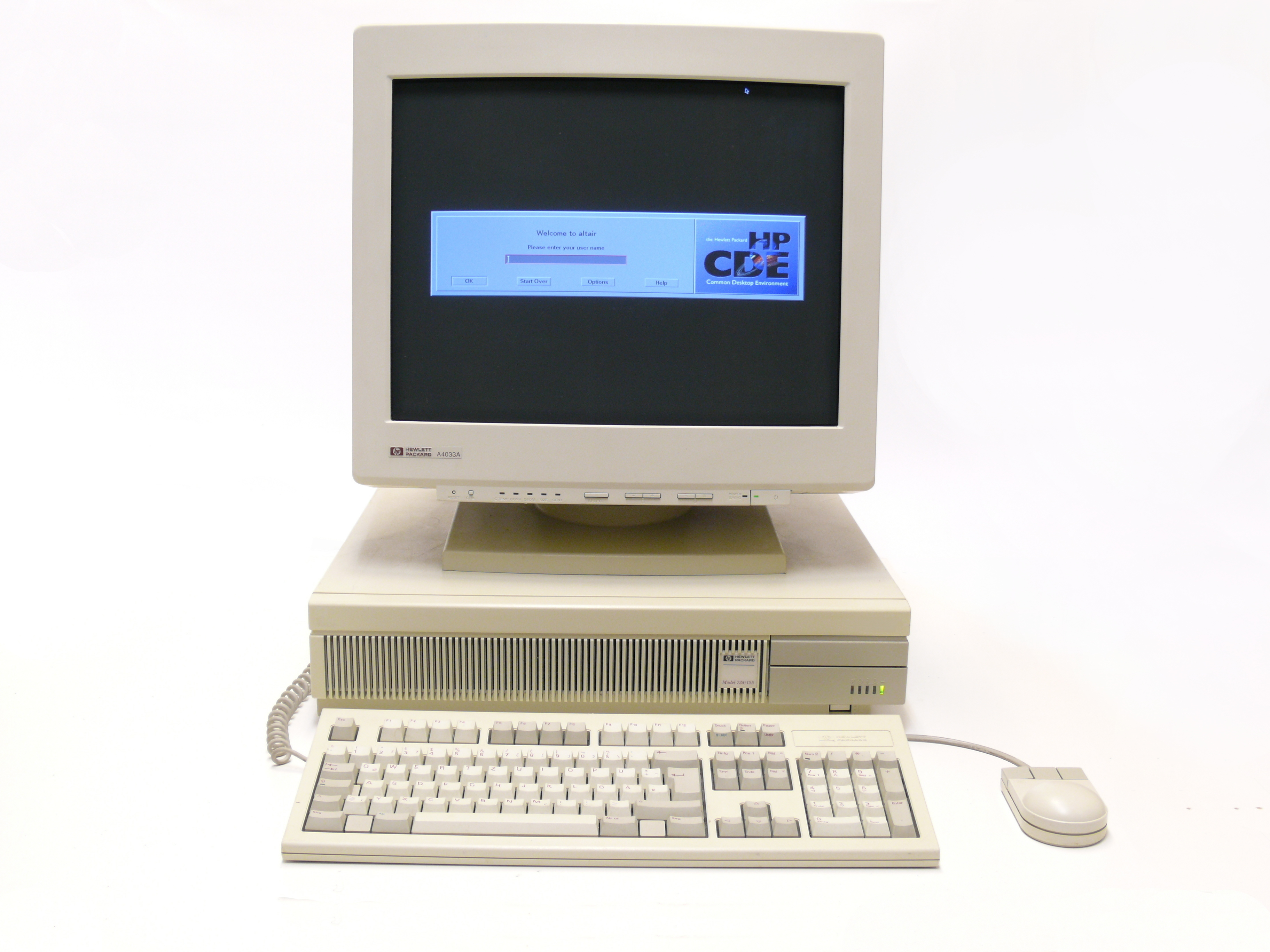 Hewlett-Packard HP9000 Unix Workstation, Model 735-125, HP9000/735, Series 700, PA-RISC 7150 CPU - 32 Bit - 125 MHz, max 400 MByte RAM, SCSI FastWide, HIL, HP A4033A CRT, HPUX 10.20, CDE